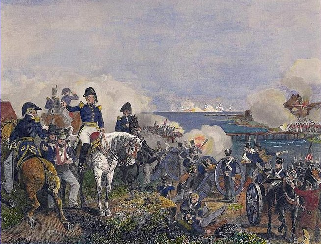 Alexander Macomb| at the category:Battle of Plattsburgh